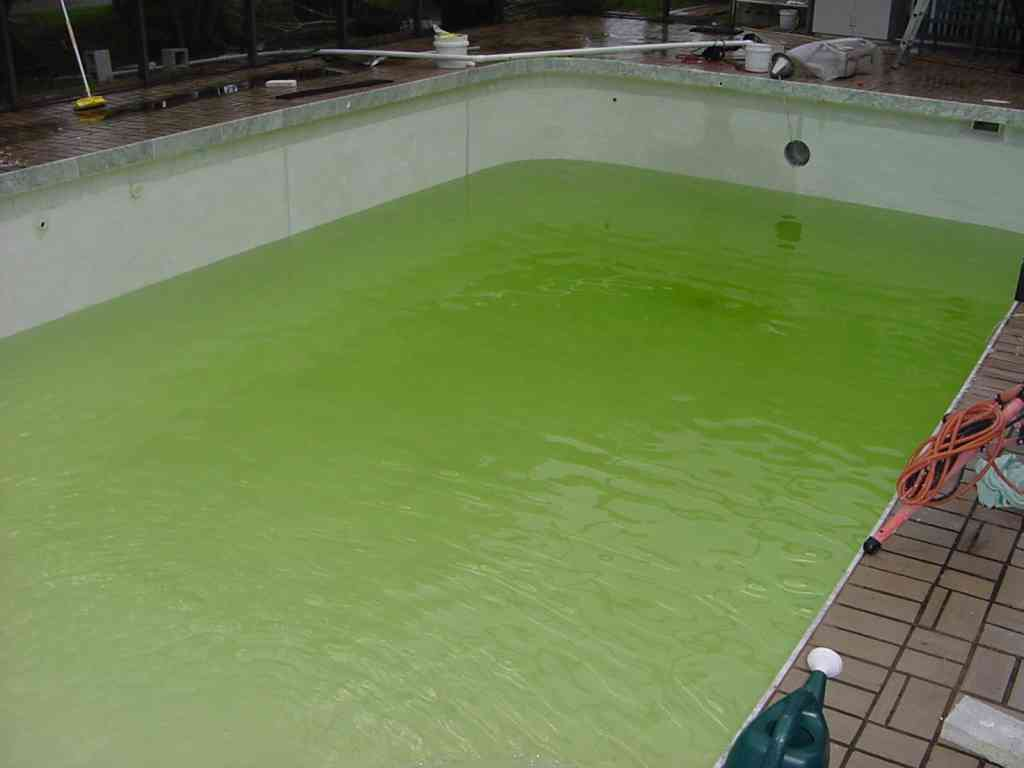 Swimming pool filled with chloramine-treated tap water, showing greenish color of chloramine.